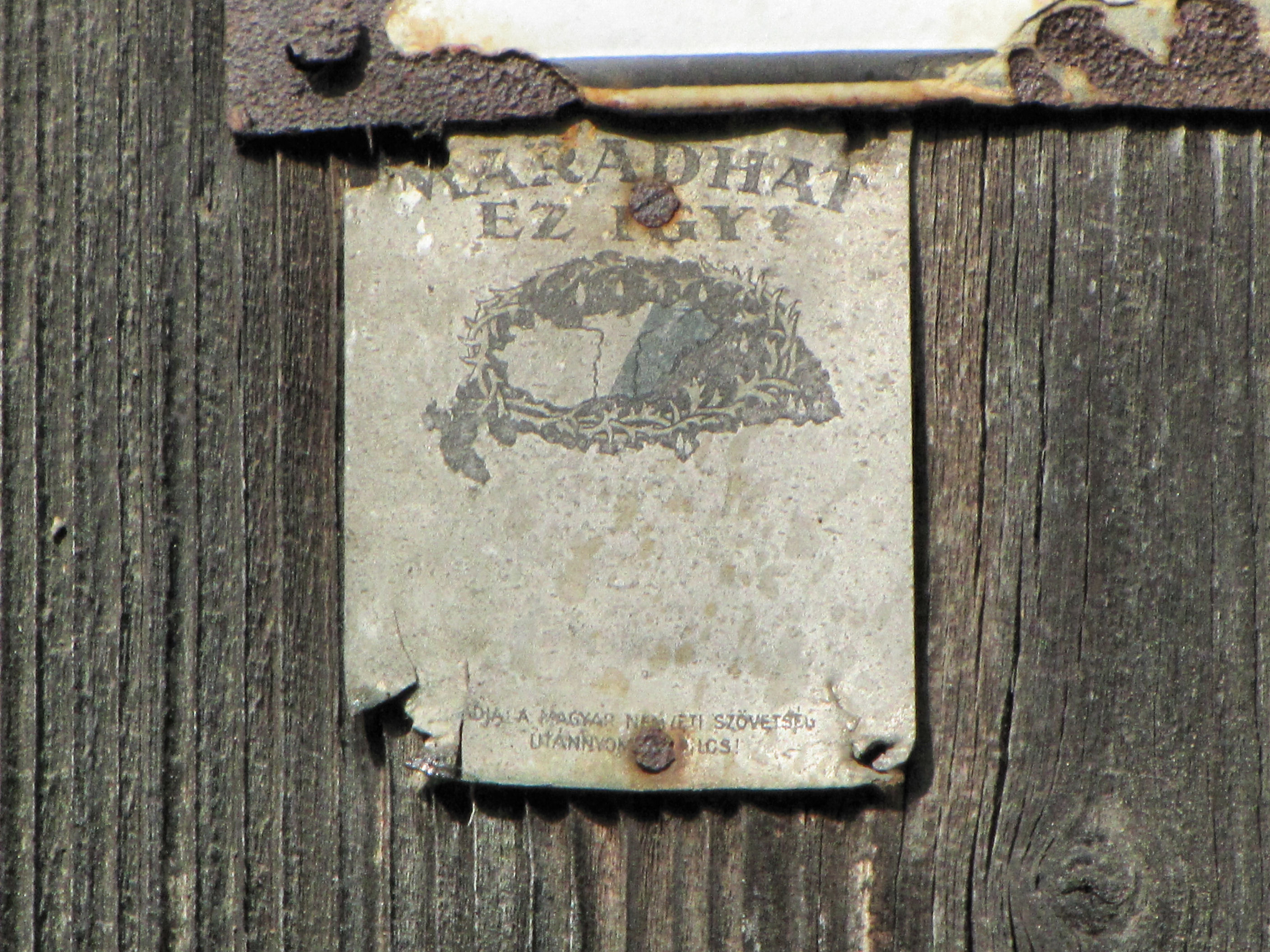 Előszállás, Hungary. Plate against the Treaty of Trianon from the interbellum period.